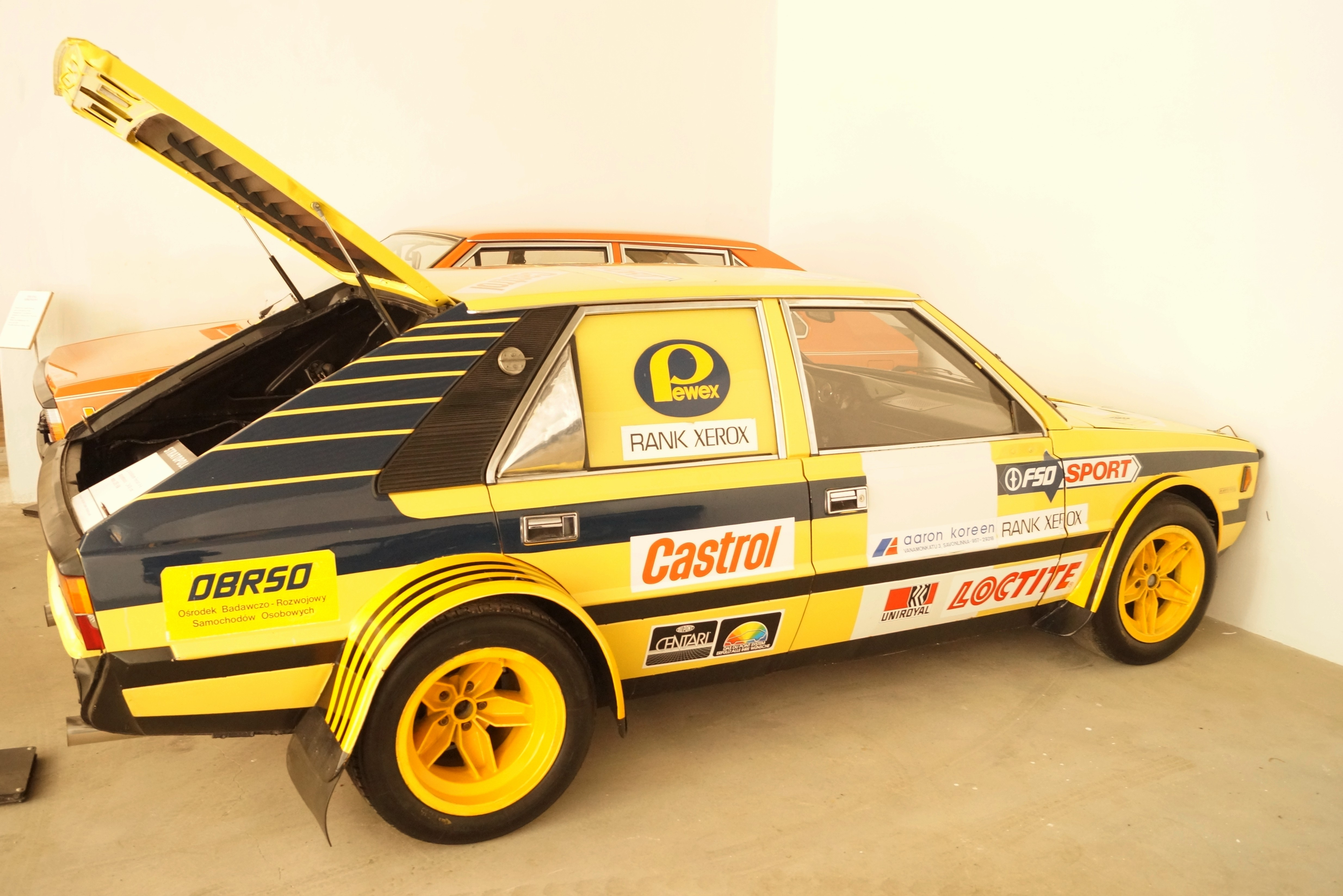 This photo was taken during Automotive Wikiexpedition 2016 set up by Wikimedia Polska Association. You can see all photographs in category Wikiekspedycja motoryzacyjna 2016. English | Polski | +/− FSO Polonez 2500 Racing w Muzeum w Chlewiskach